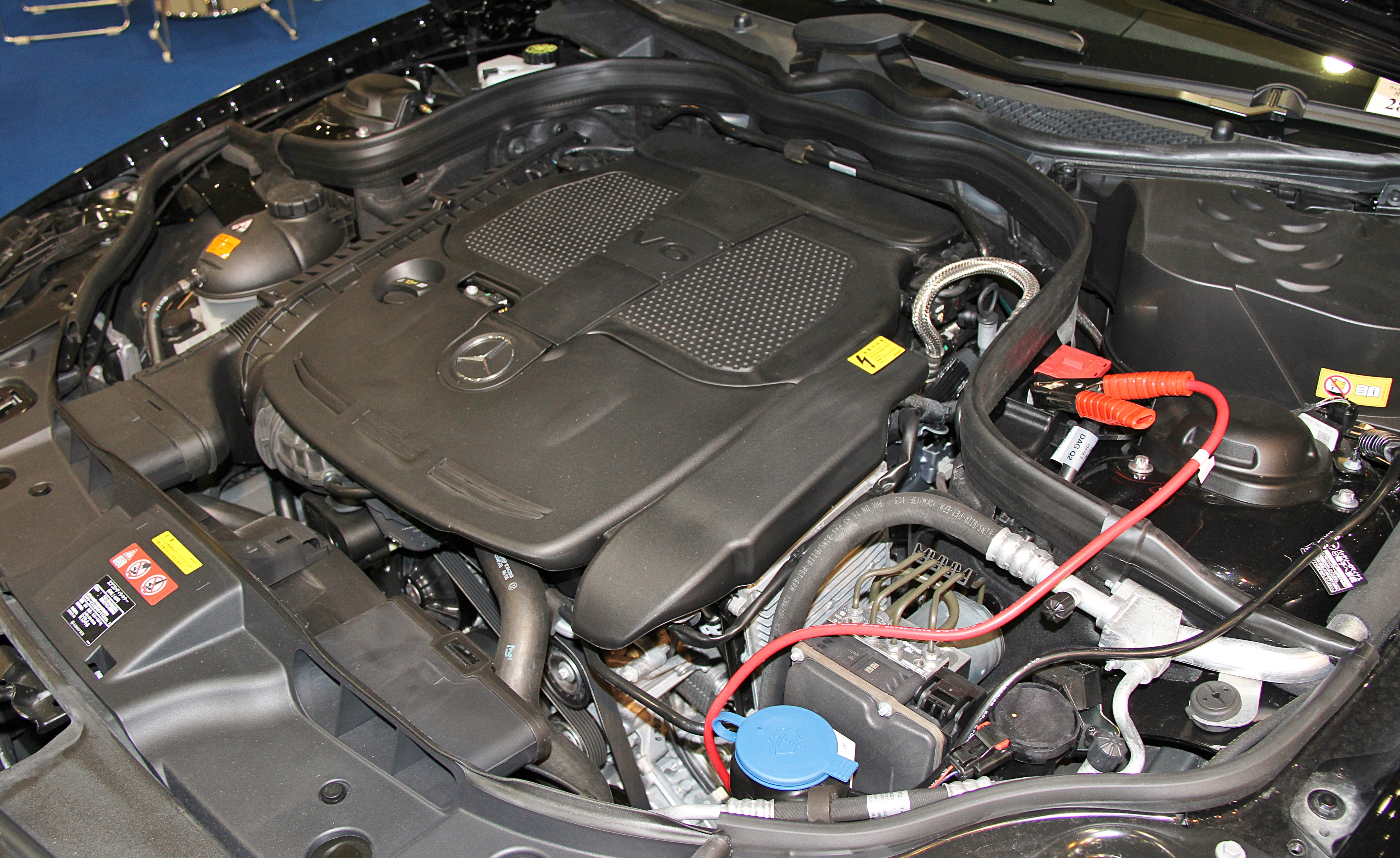 RBA-218359C